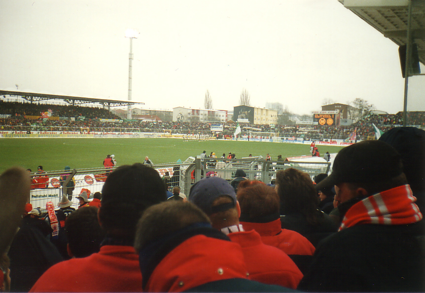 The Old VW Arena